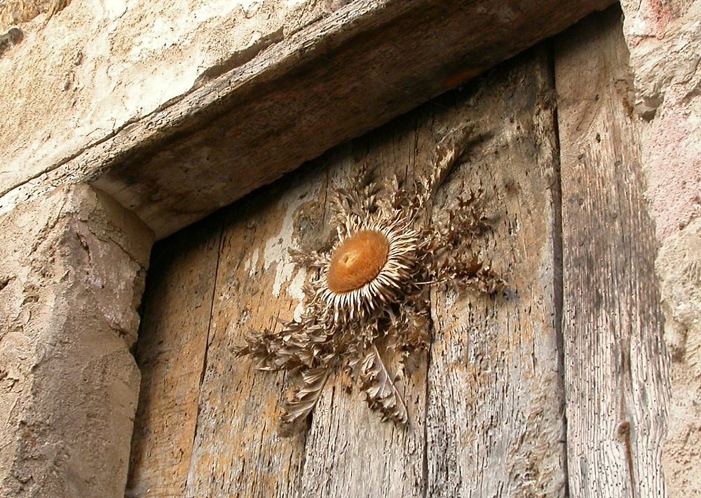 Carlina for measuring humidity (Carlina acanthifolia), Saint-Guilhem-le-Désert, Languedoc-Roussillon, France